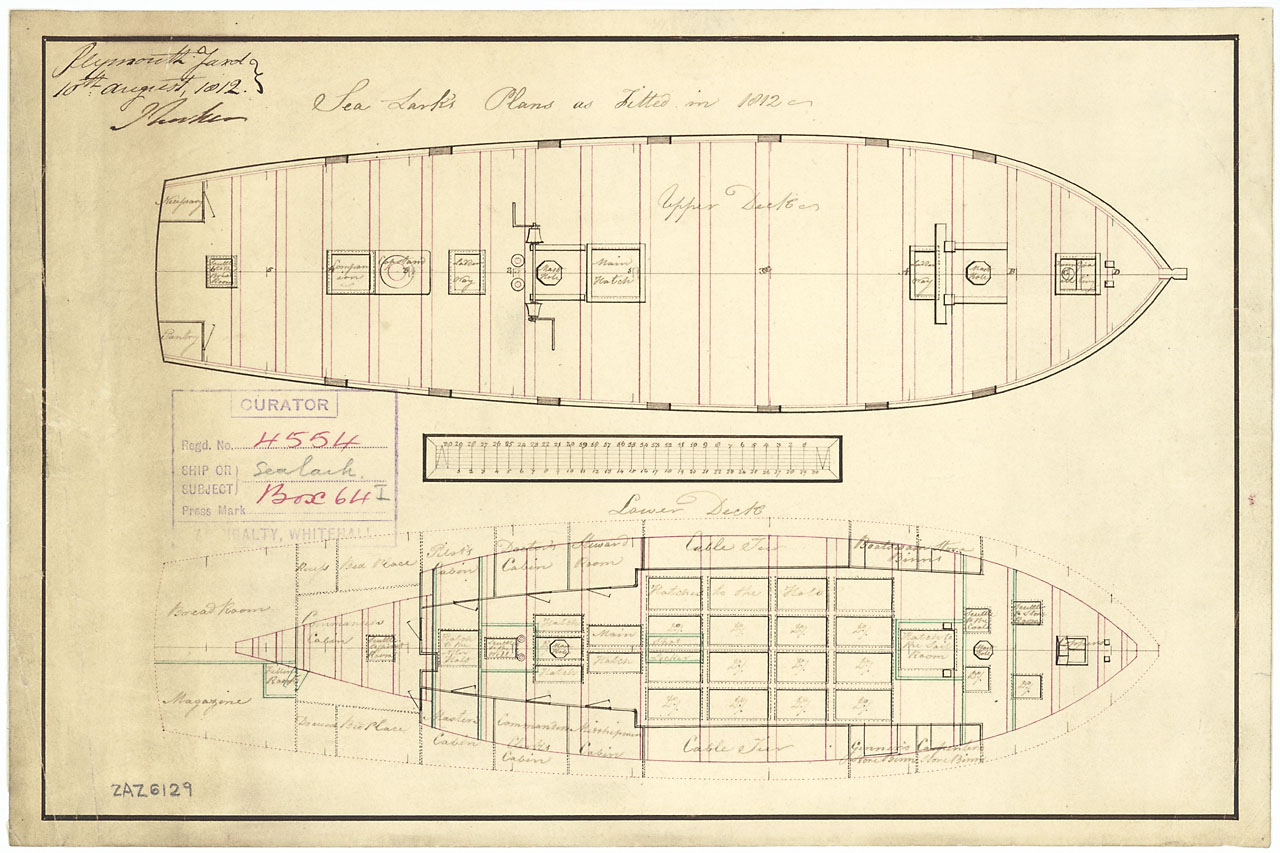 A plan showing the upper deck, lower deck, and platforms for 'Sealark' (1811), a captured American Schooner, as taken off and fitted in May 1812 for a 10-gun Schooner. Signed by Joseph Tucker [Master Shipwright, Plymouth Dockyard, 1802-1813; later Surveyor of the Navy, 1813-1831].